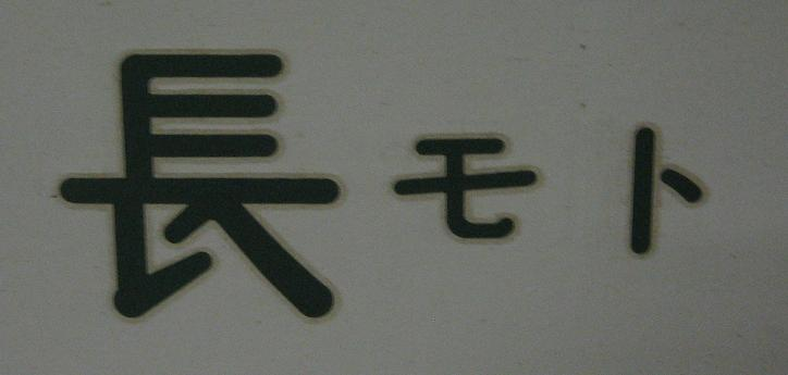 Symbol of JR East Matsumoto Rolling Stock Center, marked on its rolling stock